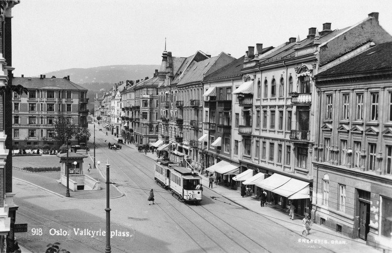 Tram at Valkyrie plass in Oslo